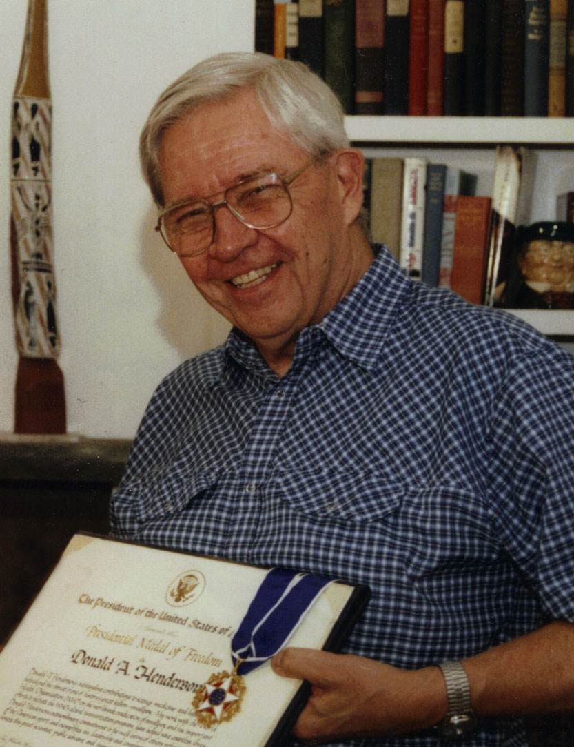 This picture was taken by me in the summer of 2002 of Dr. Henderson a week after he received the Presidential Medal of Freedom from President Bush.Wikifier (talk) 01:30, 15 January 2009 (UTC)